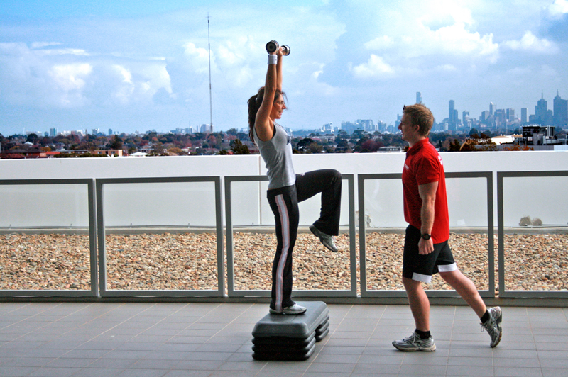 Personal Training Overlooking Melbourne